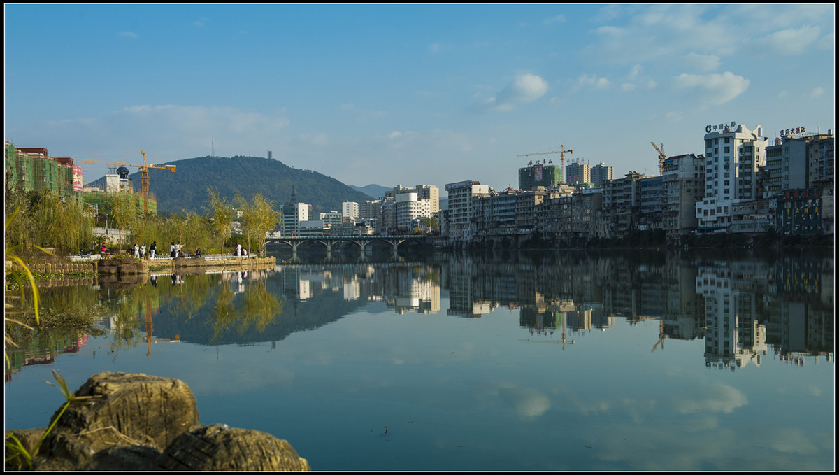 Yishi river in downtown Luotian